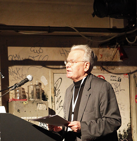 MyCreativity Sweatshop Symposium, 20th November 2014, Amsterdam